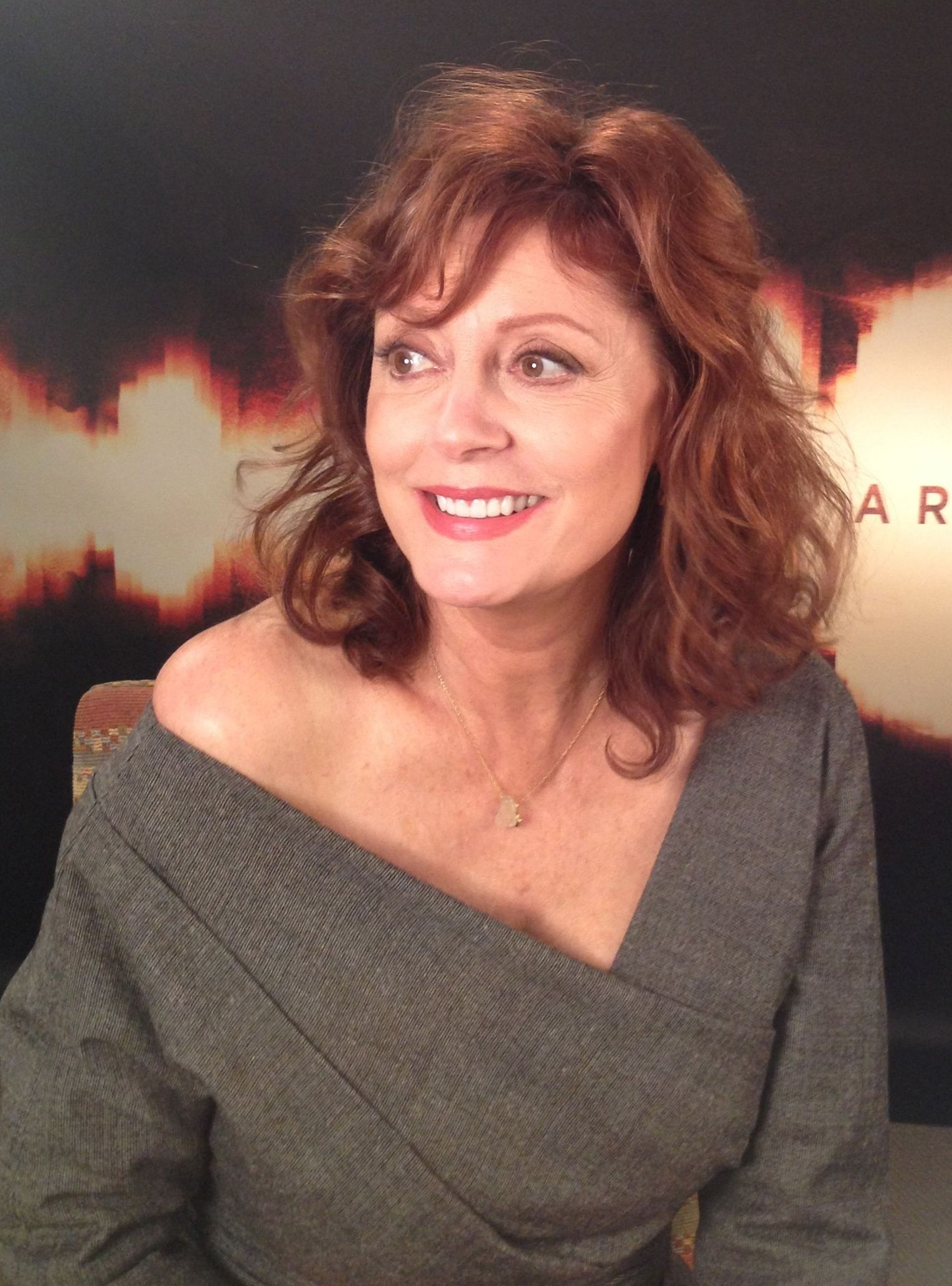 Susan interviewing at a junket